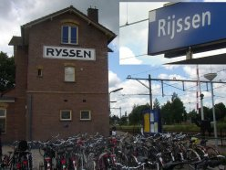 Station